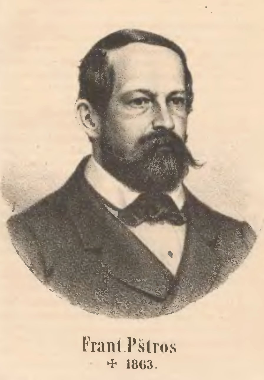 Portrait of František Václav Pštross (1823–1863), portreeve (mayor) of Prague 1861–1863.